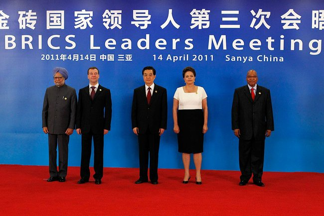 BRICS summit participants: Prime Minister of India Manmohan Singh, President of Russia Dmitry Medvedev, President of China Hu Jintao, President of Brazil Dilma Rousseff, President of South Africa Jacob Zuma.